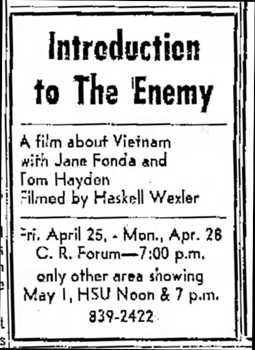 Newspaper announcement for a screening of 'Introduction to the Enemy', a 1974 film about the Vietnam War. Published in the Times-Standard of Eureka, California, on April 25, 1975 and retrieved via .